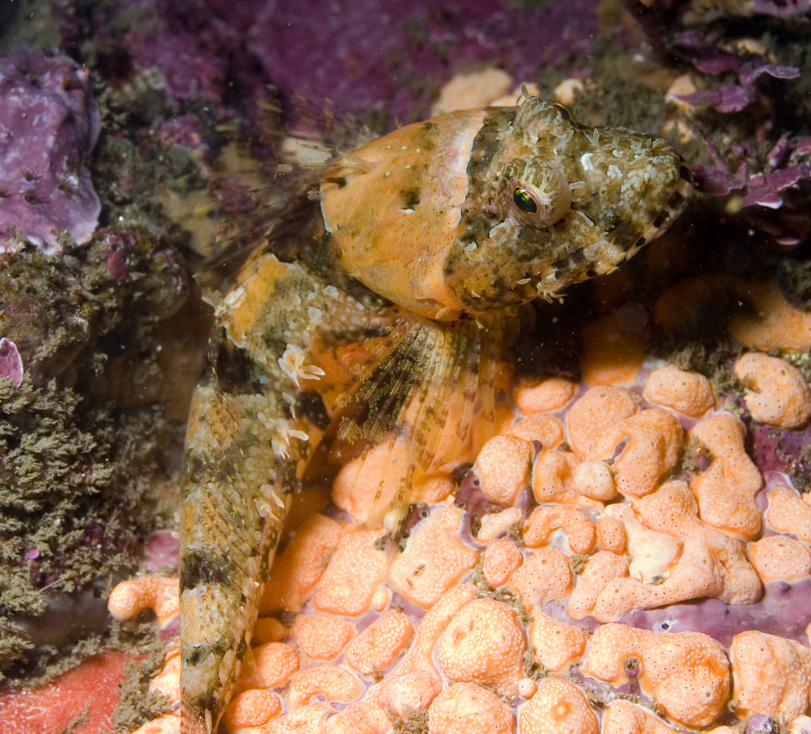 Coralline sculpin (Artedius corallinus) resting on a sponge similar in color to itself